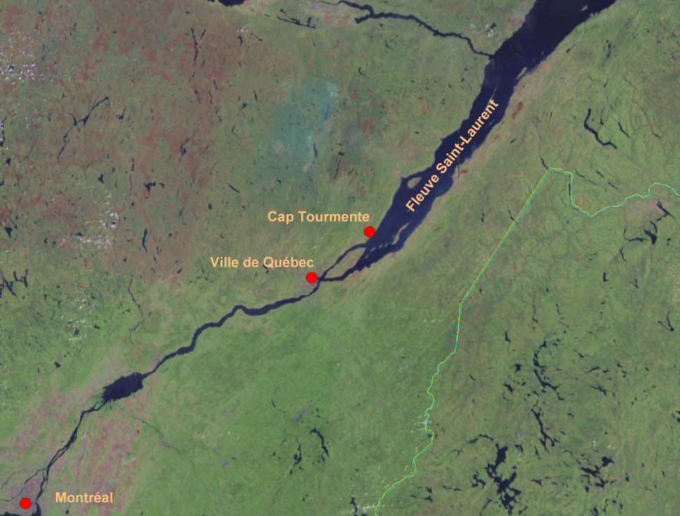 Cap Tourmente localization in the Province of Quebec.